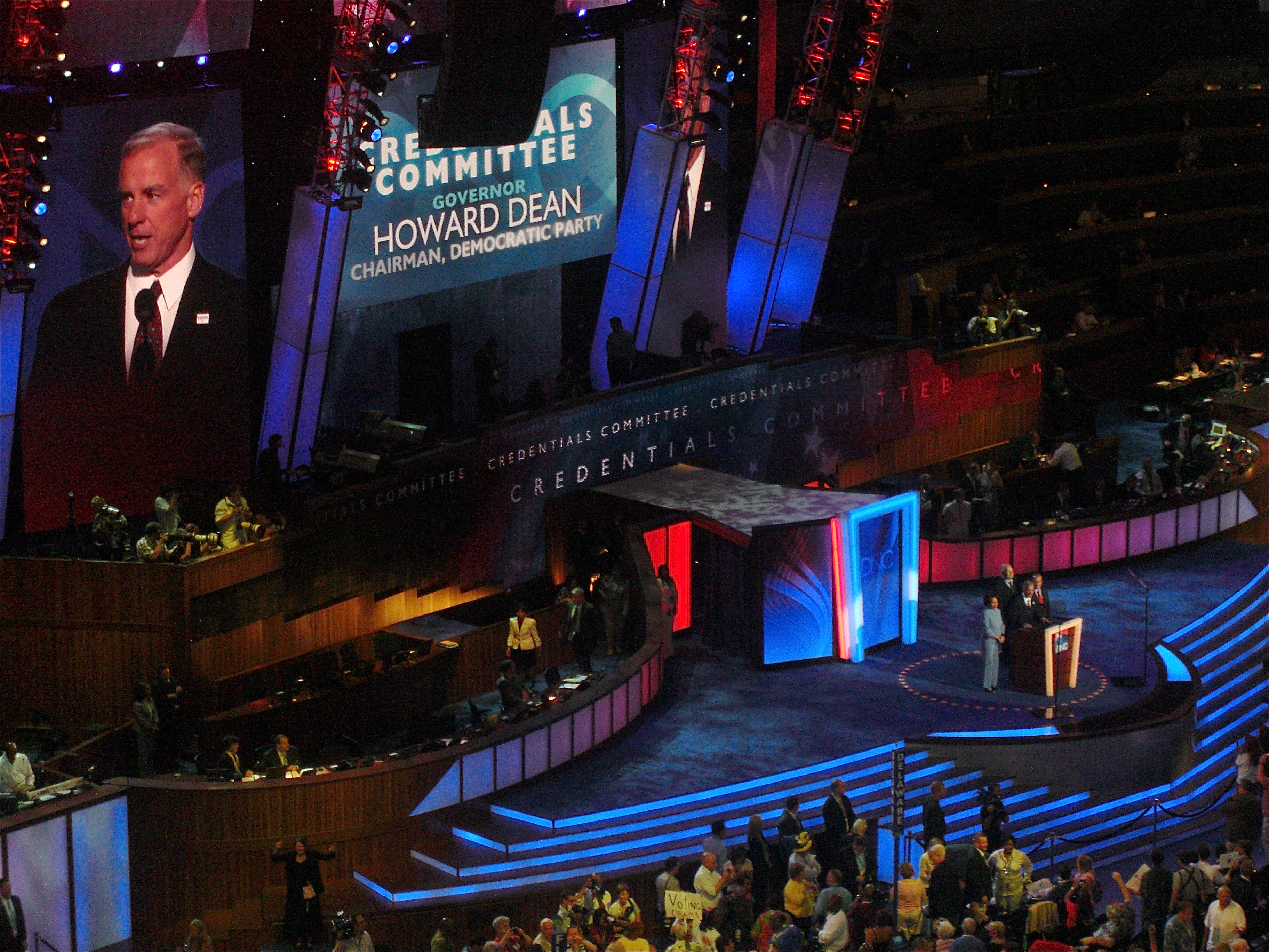 Democratic National Committee Chair Howard Dean conducts convention business on the first day of the 2008 Democratic National Convention in Denver, Colorado.